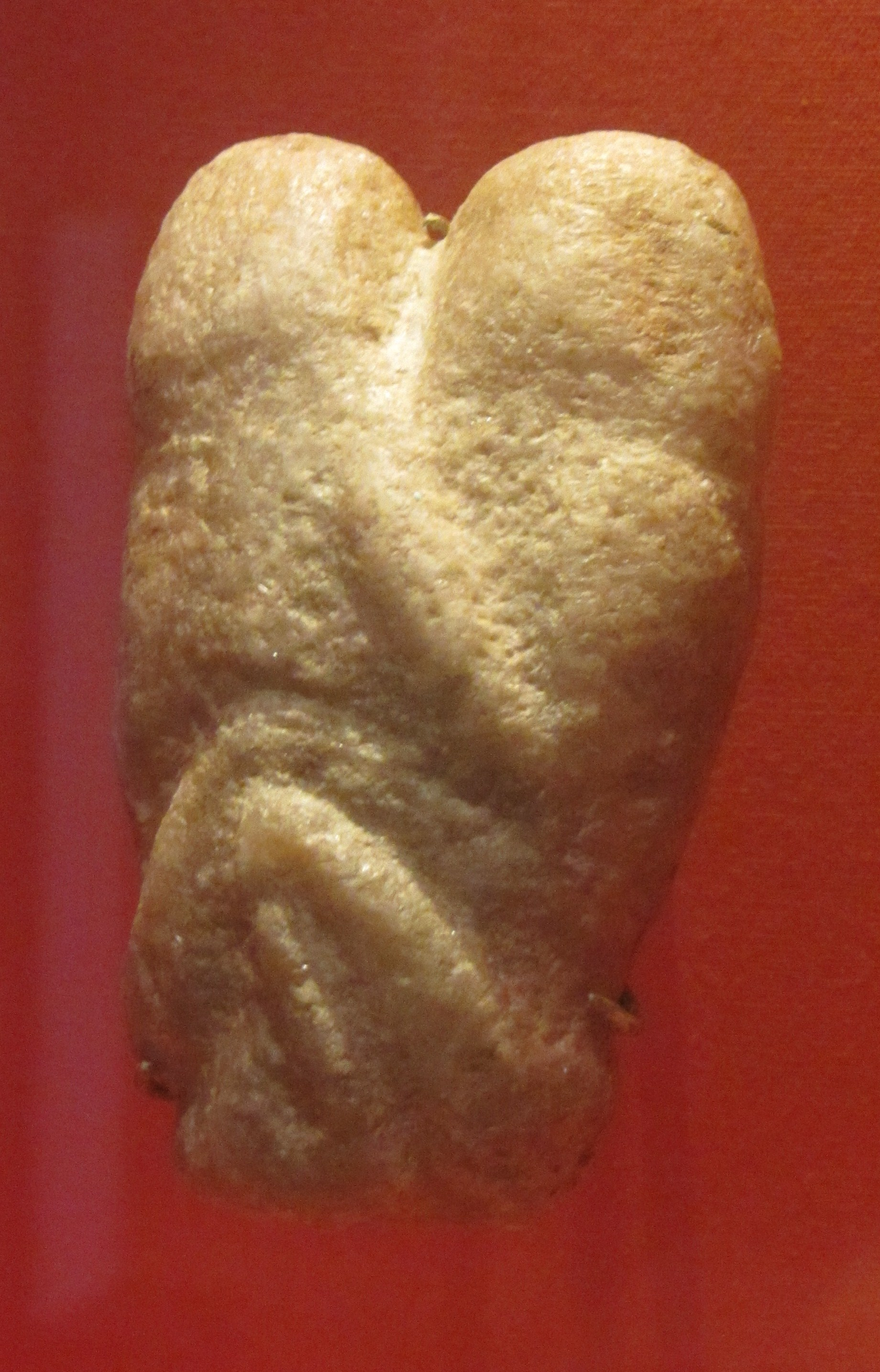 Ain Sakhri lovers figurine, probably from the cave of Ain Sakhri, Wadi Khareitoun, Judea, Natufian, about 11,000 years old. British Museum (1958,1007.1).